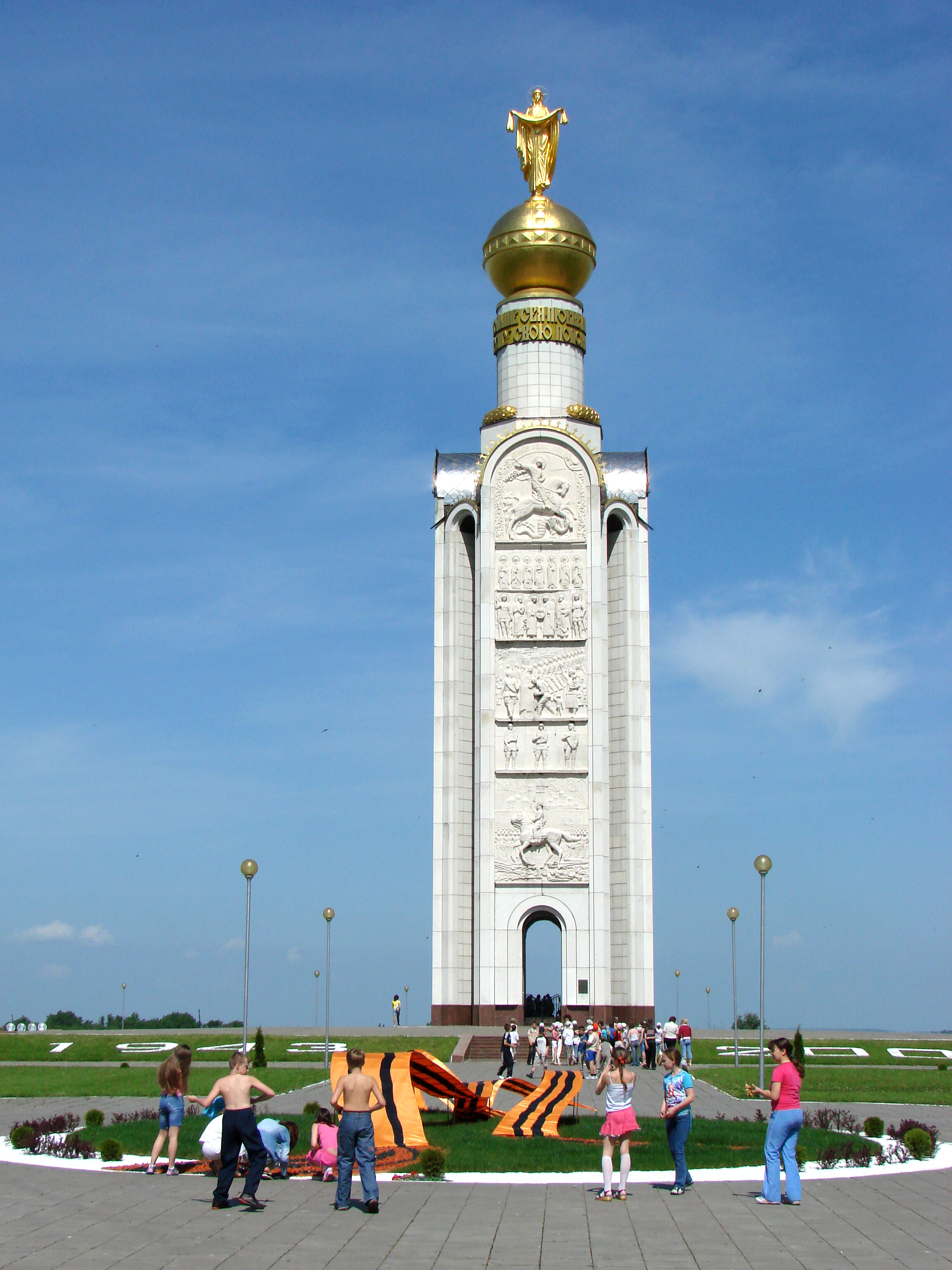 Monument to the Battle of Kursk (July 1943), outside Prokhorovka, Russia. May 2008.